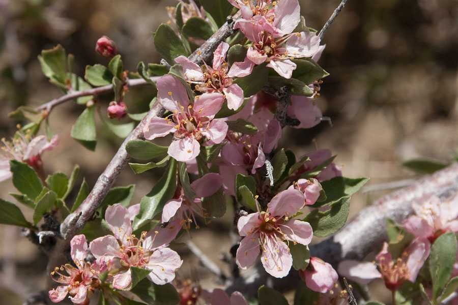 In Three Pines Canyon, Kern County, California